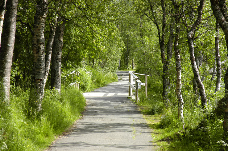 The path near Prestvannet lake in Tromsø, Norway. Trees visible are birch (Betula pubescens) of North Norwegian lowland variety (not the smaller mountain birch), as well as a Rowan.